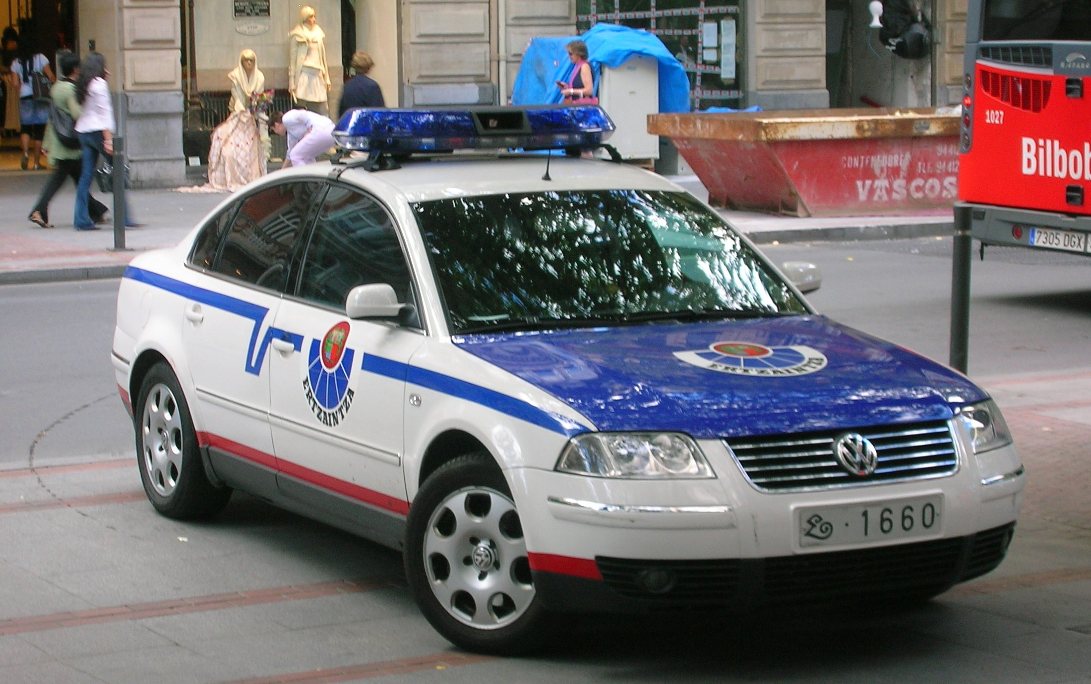 Volkswagen vehicle of Ertzaintza (Police of the Basque Country autonomous government) at Bilbao's Main Way (Gran Vía / Bide Nagusia)